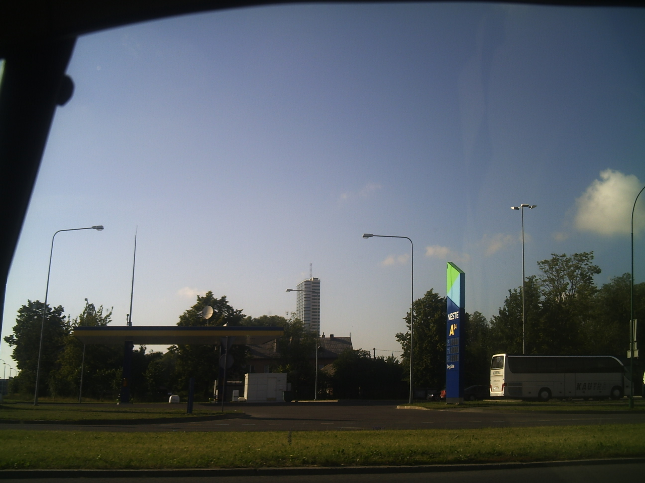 Pilsotas building from Baltijos street